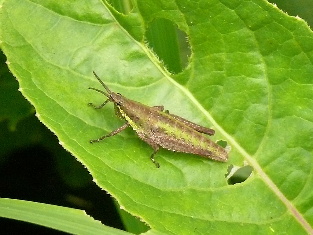 Stenoscepa (probably S. granulata) photographed in Katavi National Park, Tanzania